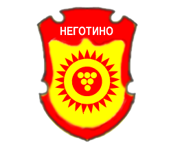 Category:Coats of arms of the Republic of Macedonia